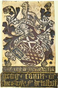 Garter stall plate of George Talbot, 4th Earl of Shrewsbury (c.1468-1538) nominated 1488. arms are quarterly of six: 1, azure a lion rampant within a bordure or (Talbot, ancient); 2, gules a lion rampant within a bordure engrailed or (Talbot); 3, gules a saltire argent, a martlet for difference (Neville); 4, argent a bend between six martlets gules (Furnival); 5, or fretty gules (Verdon); 6, argent two lions passant gules (Strange).